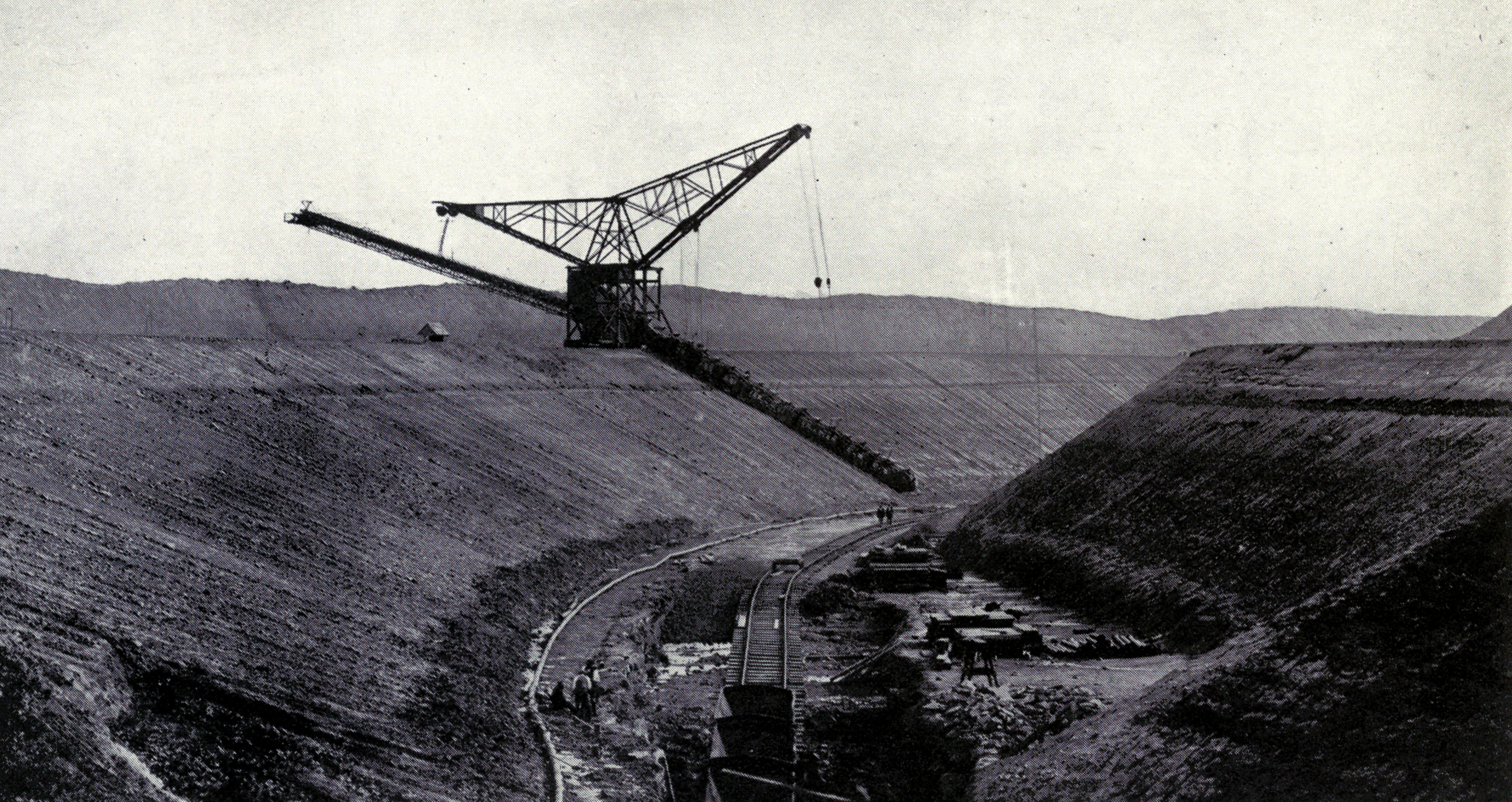 Bucket excavator at Frodingham Iron and Steel Co. quarry